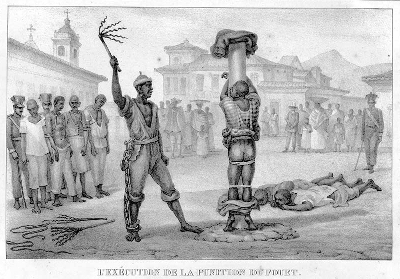 Execution of the flogging punishment Execução da punição de açoitamento